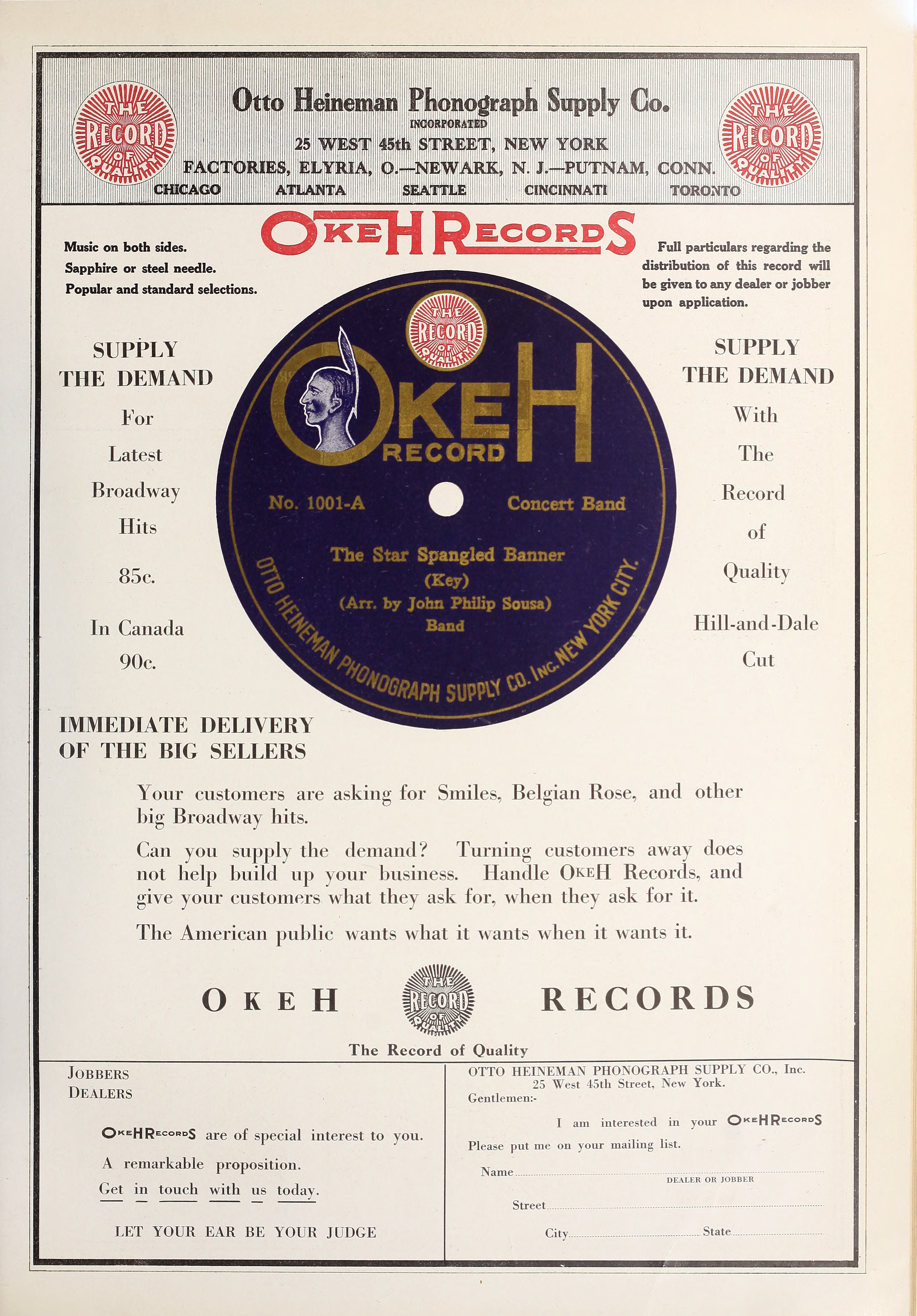 Announcement of the first single of OKeh Records label release